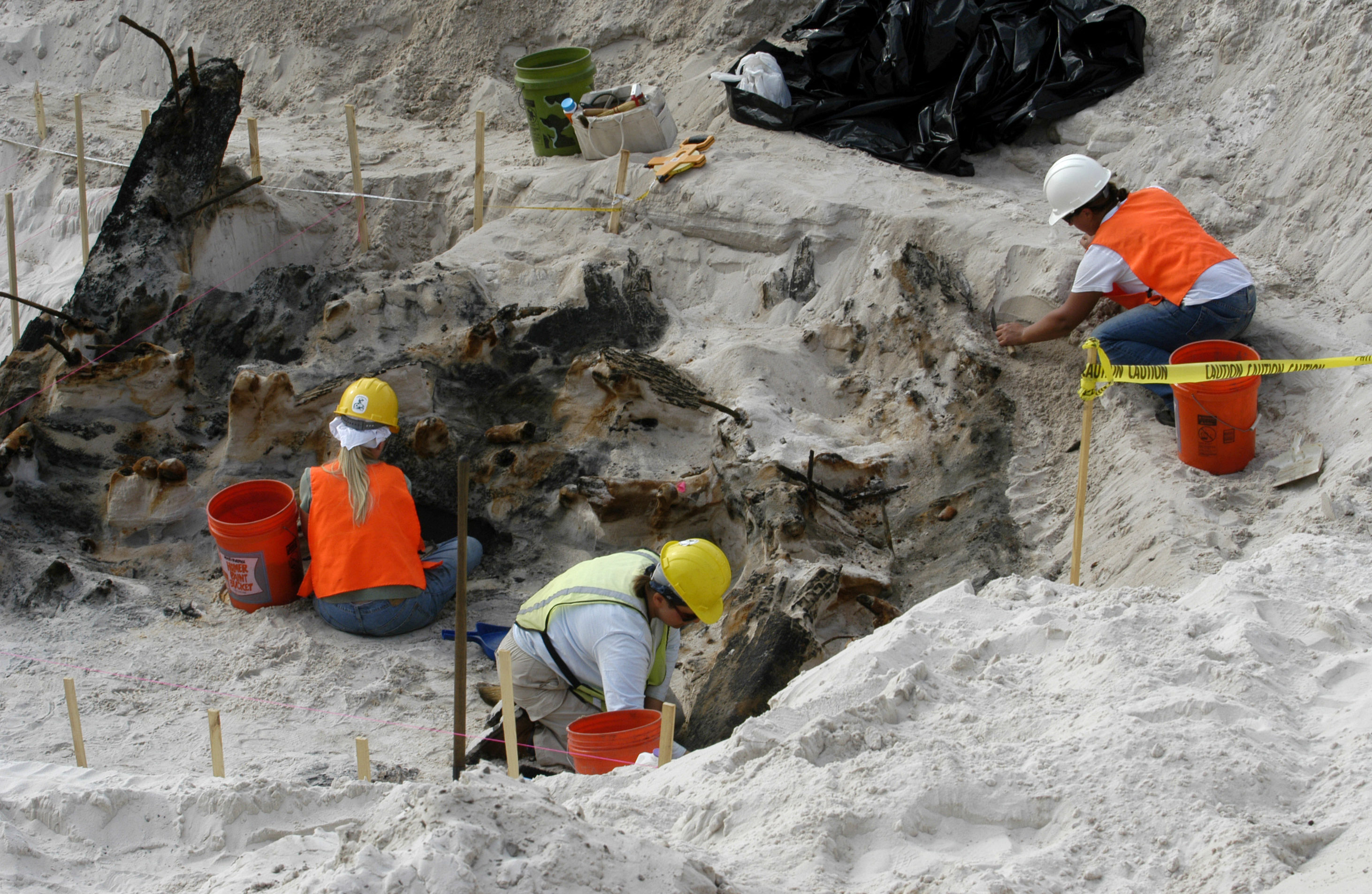 Pensacola, Fla. (March 16, 2006) - Archaeologists carefully clear sand from the remains of what is believed to be a wrecked wooden ship on board Naval Air Station Pensacola. The archaeologists are conducting a phase II archaeological survey on behalf of the Navy to determine if the remains are historically significant and whether they will be eligible for the National Historic Register. The artifact was discovered during the early construction phase of a new Rescue Swimmer school. Following in the wake of Hurricane Ivan in September of 2004, many buildings at the air station were severely damaged and were later demolished, including the enlisted barracks where the proposed Rescue Swimmer School is currently being built.